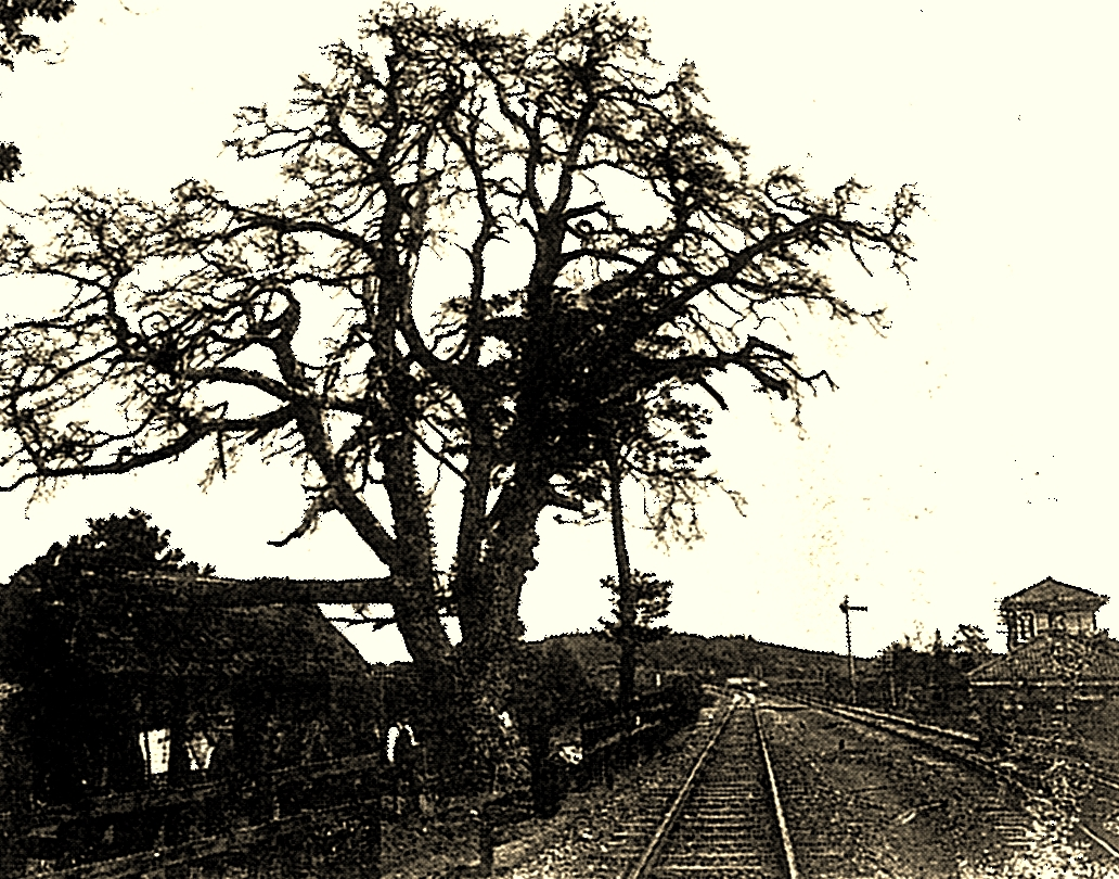 Shingen-ko Hatakake-matsu pine tree 1915